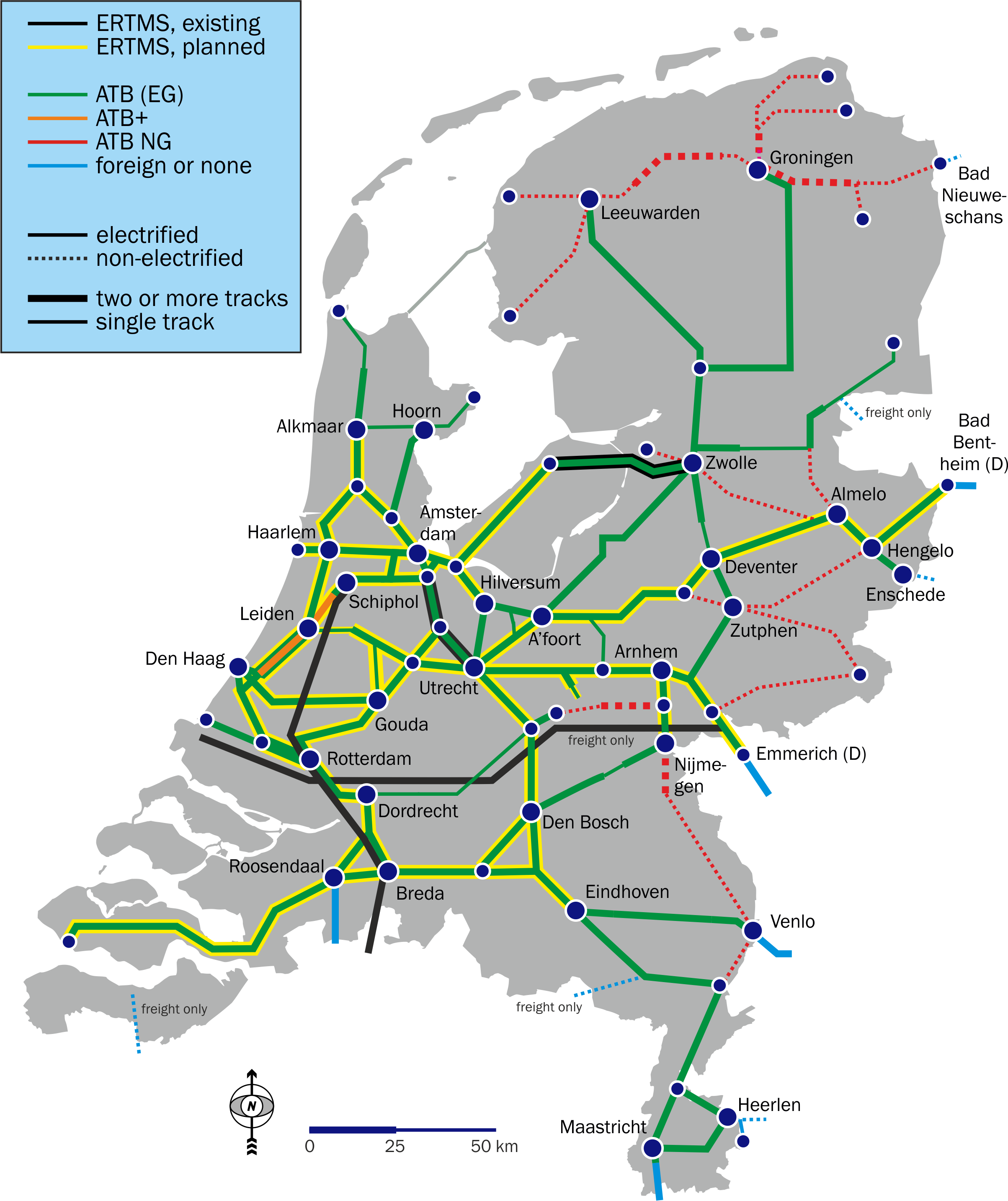 Map of safety control systems on Dutch railways, including programmed ERTMS implementation. Museum and minor freight railways not shown; for those, use File:ATB-kaart.png instead. Based on that file, and on official ERTMS plans at rijksoverheid.nl.